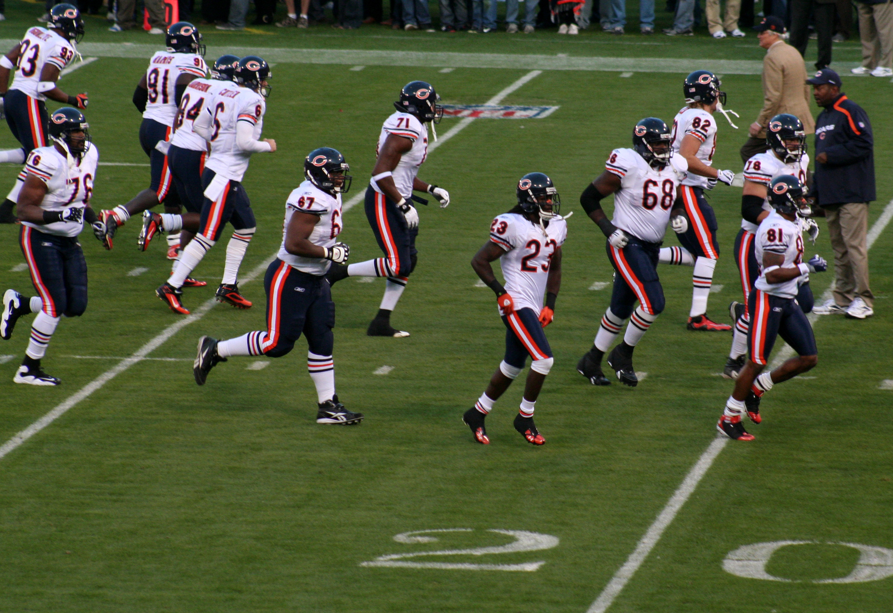 See pro football reference for names